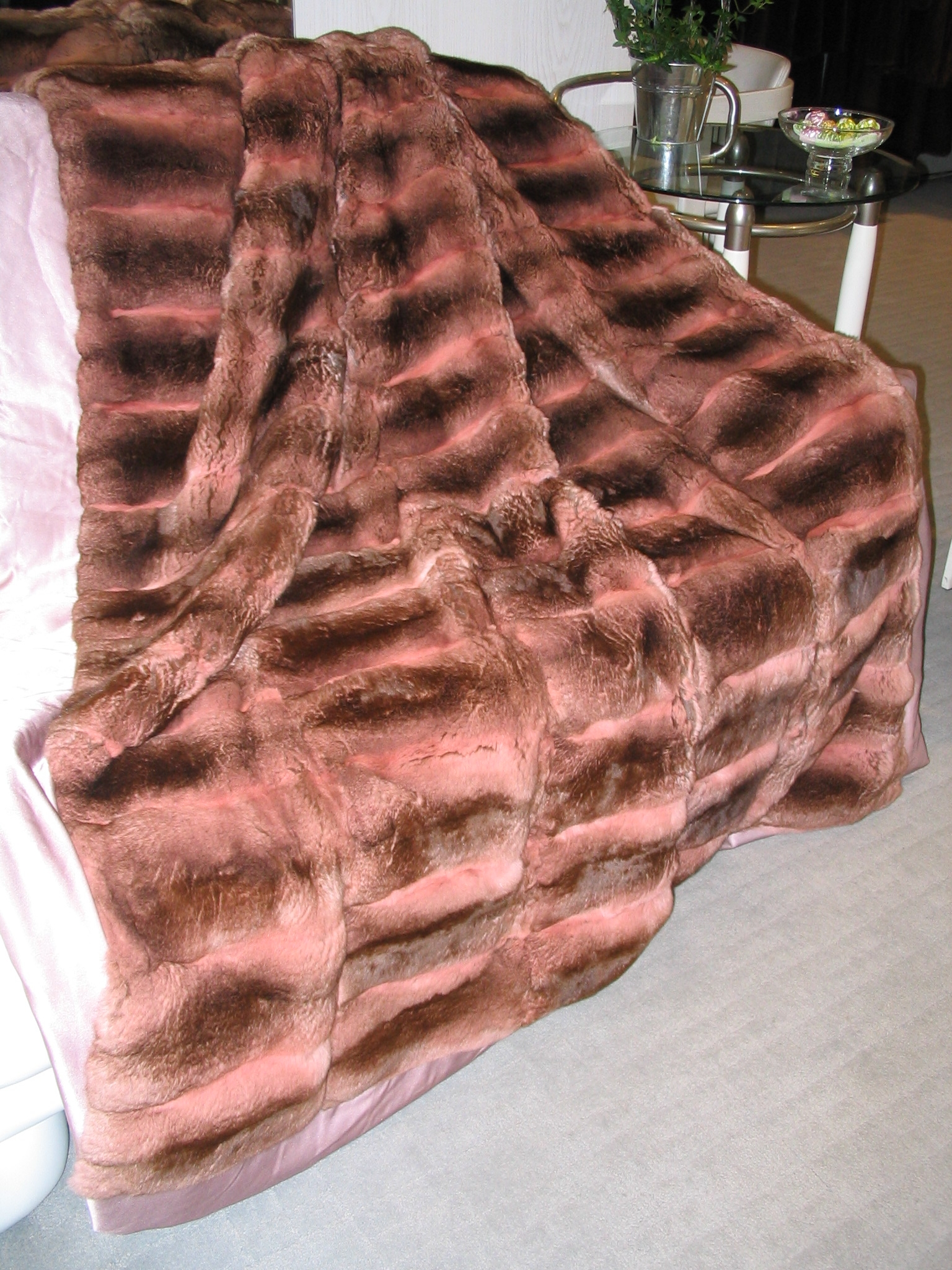 Chinchilla plaid from dyed skins (just before restyling into a fur coat)